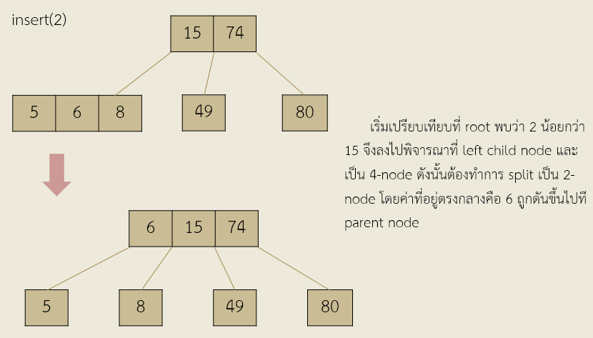 เป็นการเพิ่มข้อมูลโดยเริ่มเปรียบเทียบที่ root พบว่า 2 น้อยกว่า 15 จึงลงไปพิจารณาที่ left child node และ เป็น 4-node ดังนั้นต้องทำการ split เป็น 2-node โดยค่าที่อยู่ตรงกลางคือ 6 ถูกดันขึ้นไปทีparent node